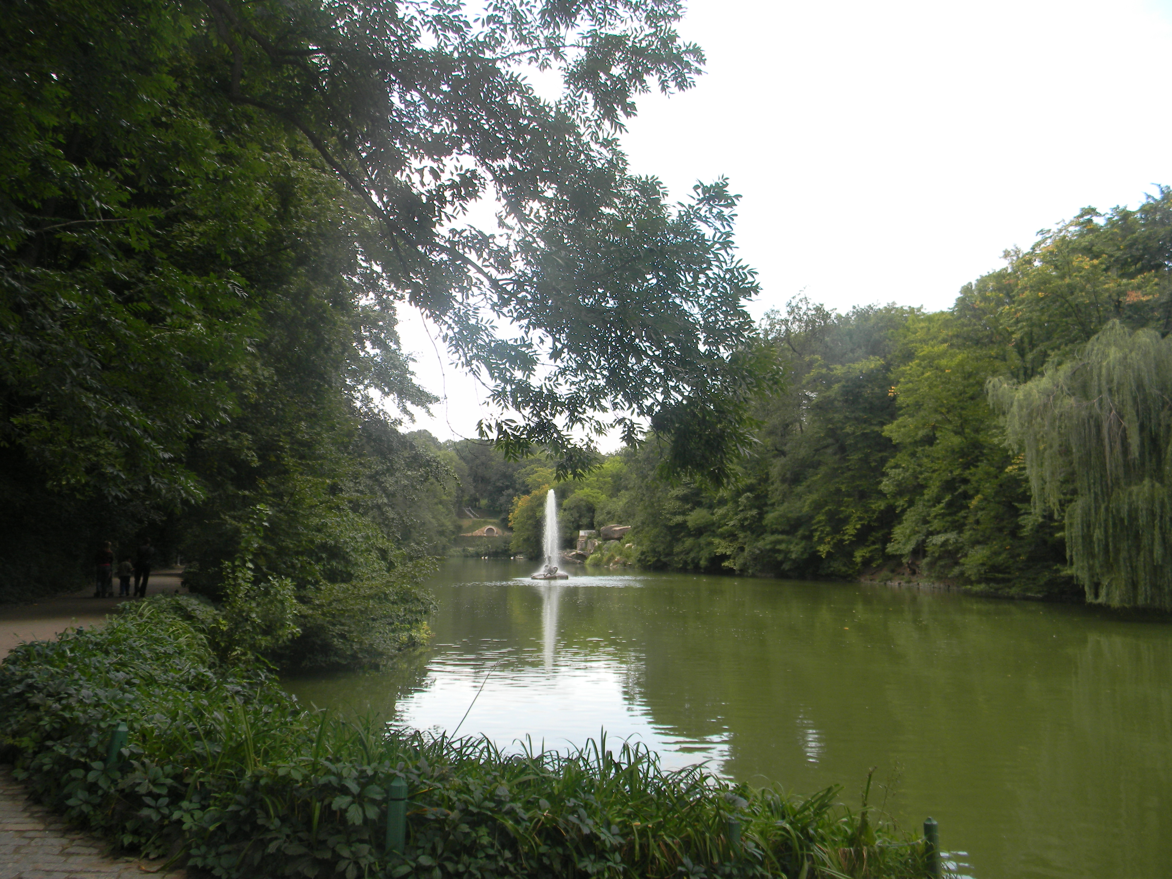 Sofiyivsky Park